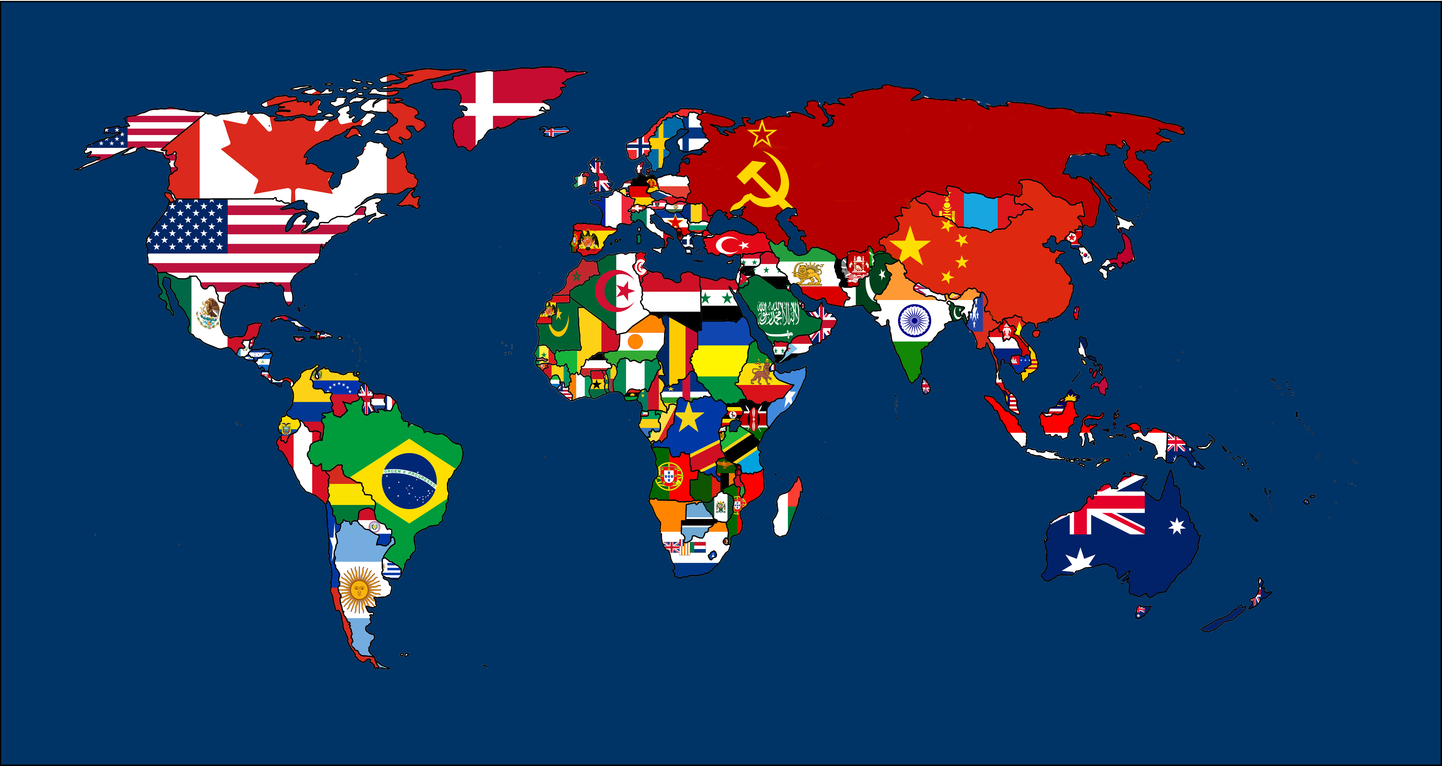 This map shows the flags of nations in 1970